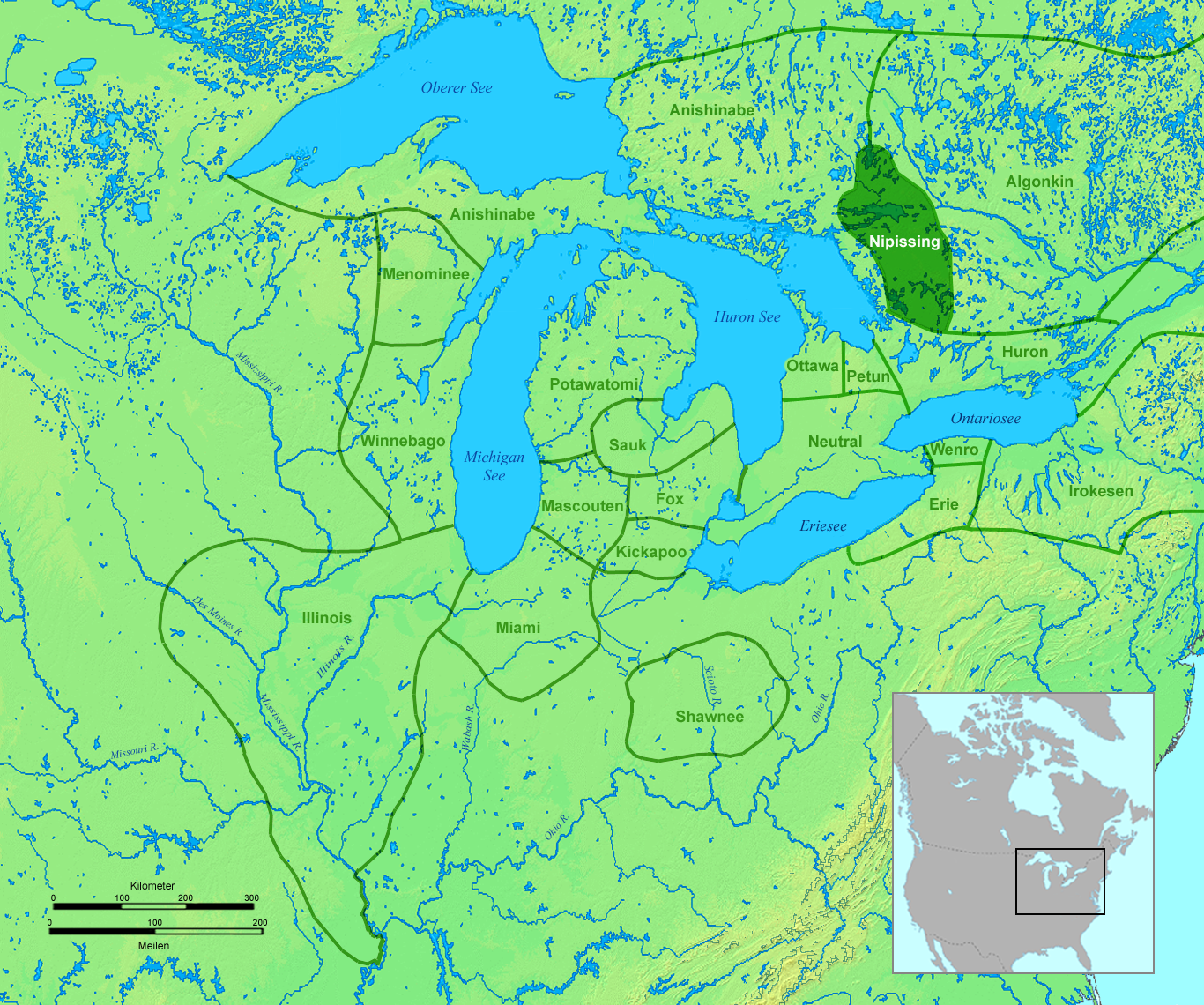 Tribal territory of Nipissing about 1650